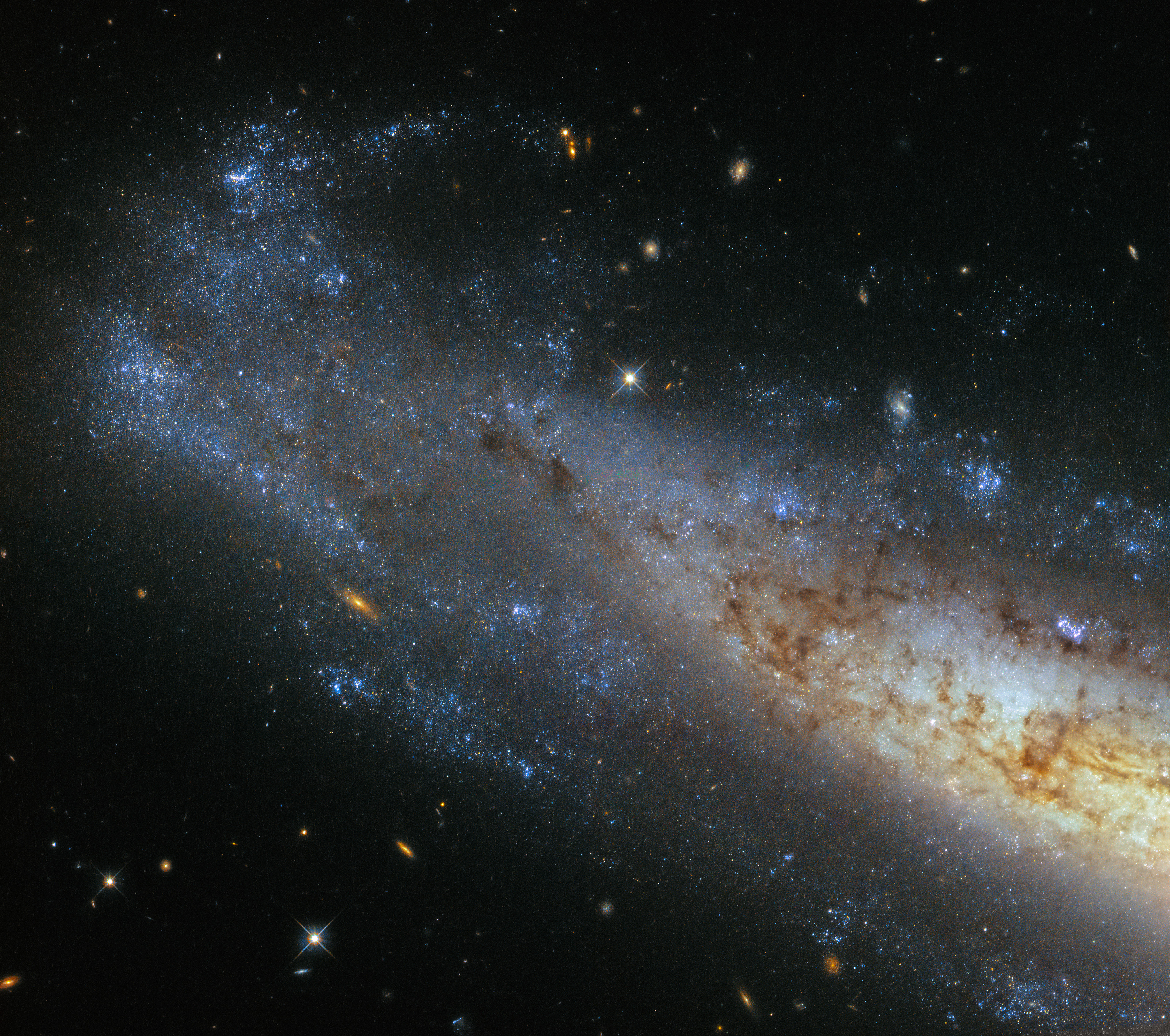 This image from Hubble’s Wide Field Camera 3 (WFC3) shows NGC 1448, a spiral galaxy located about 50 million light-years from Earth in the little-known constellation of Horologium (The Pendulum Clock). We tend to think of spiral galaxies as massive and roughly circular celestial bodies, so this glittering oval does not immediately appear to fit the visual bill. What’s going on? Imagine a spiral galaxy as a circular frisbee spinning gently in space. When we see it face on, our observations reveal a spectacular amount of detail and structure — a great example from Hubble is the telescope’s view of Messier 51, otherwise known as the Whirlpool Galaxy. However, the NGC 1448 frisbee is very nearly edge-on with respect to Earth, giving it an appearance that is more oval than circular. The spiral arms, which curve out from NGC 1448’s dense core, can just about be seen. Although spiral galaxies might appear static with their picturesque shapes frozen in space, this is very far from the truth. The stars in these dramatic spiral configurations are constantly moving and spinning around the galaxy’s core, with those on the inside whirling around faster than those sitting further out. This makes the formation and continued existence of a spiral galaxy’s arms something of a cosmic puzzle, because the arms wrapped around the spinning core should become wound tighter and tighter as time goes on — but this is not what we see. This is known as the winding problem.